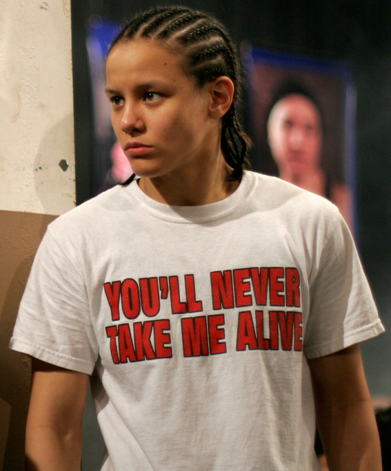 Source: Cropped from original image on Flickr.